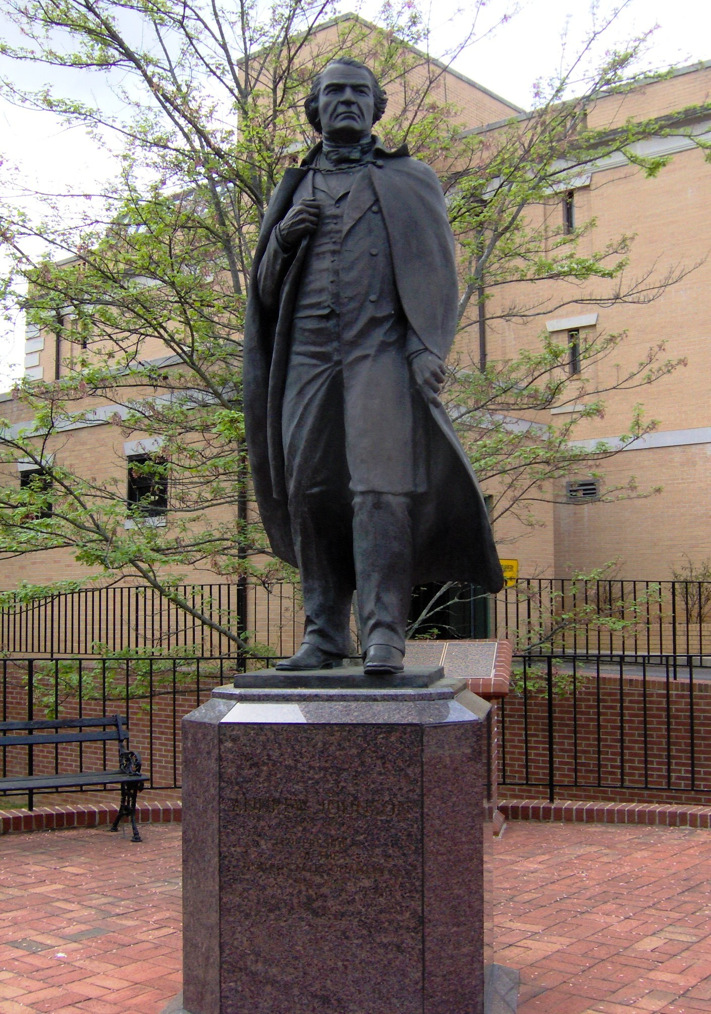 Statue of President Andrew Johnson in Greeneville, Tennessee, in the southeastern United States. This statue is part of the Andrew Johnson National Historic Site, which includes Johnson's tailor shop and Greeneville residence.